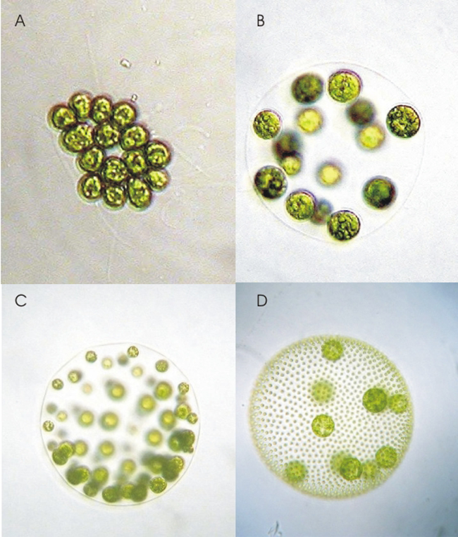 Four Different Species of Volvocales Algae. (A) Gonium pectorale, (B) Eudorina elegans, (C) Pleodorina californica, and (D) Volvox carteri. These are unicellular organisms that live in colonies and have both large and small gametes.